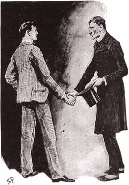 Illustration of the Sherlock Holmes short story The Engineer's Thumb, which appeared in The Strand Magazine in March, 1892. Original caption was "'NOT A WORD TO A SOUL!'"